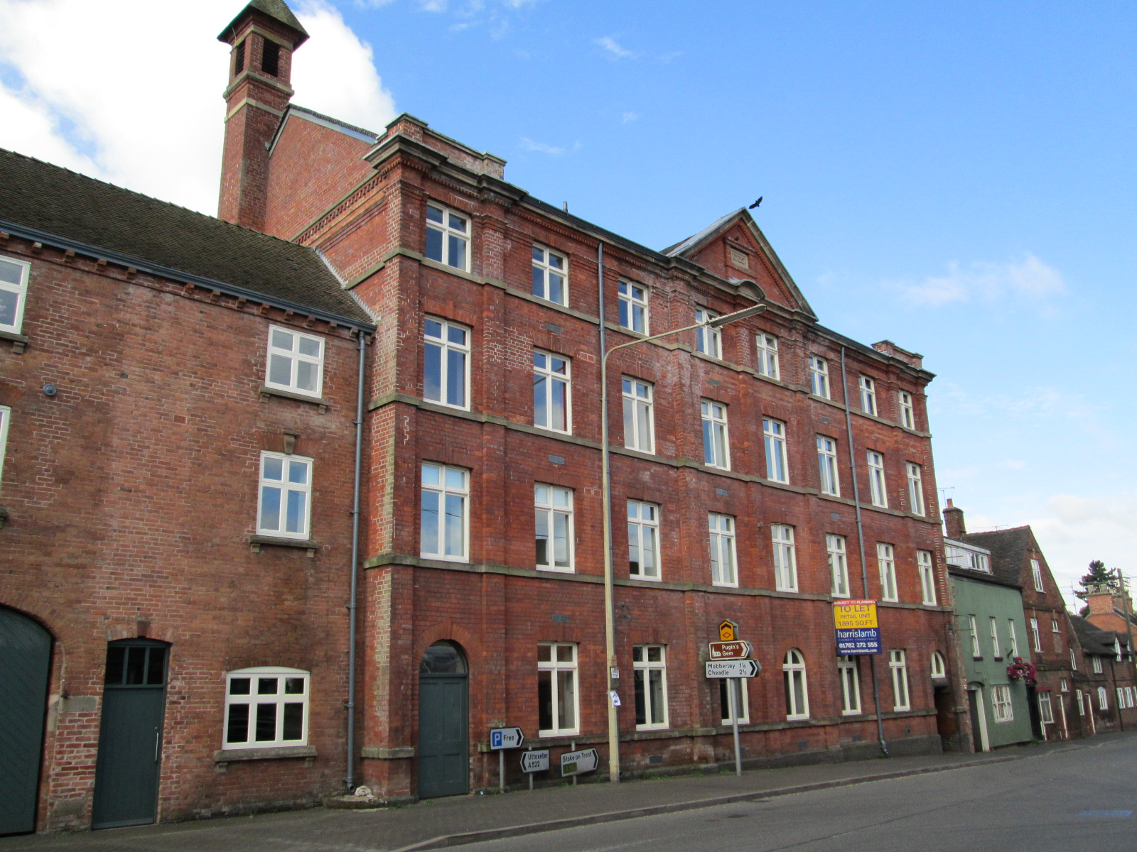 19th-century tape weaving factory on High Street, Upper Tean. The building has been converted into apartments.